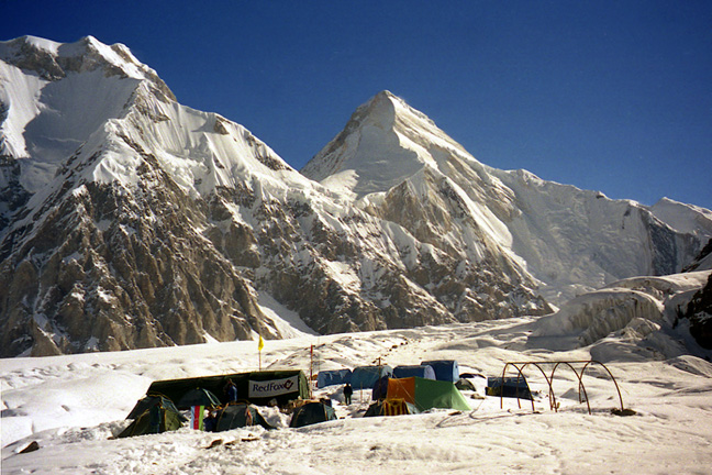 A scan from a 35mm transparency which I took on the South Inylchek Glacier in the Tien Shan mountains in Kyrgyzstan in July 2002. The mountain in the background is Khan Tengri (6995 m) on the border with Kazakhstan. This scan is in the Public Domain (however, I retain ownership and copyright of the original transparency and any higher-resolution scans derived from it). If this image is used outside Wikipedia a photographer's credit (Simon Garbutt) would be much appreciated! SiGarb 21:12, 23 November 2005 (UTC)